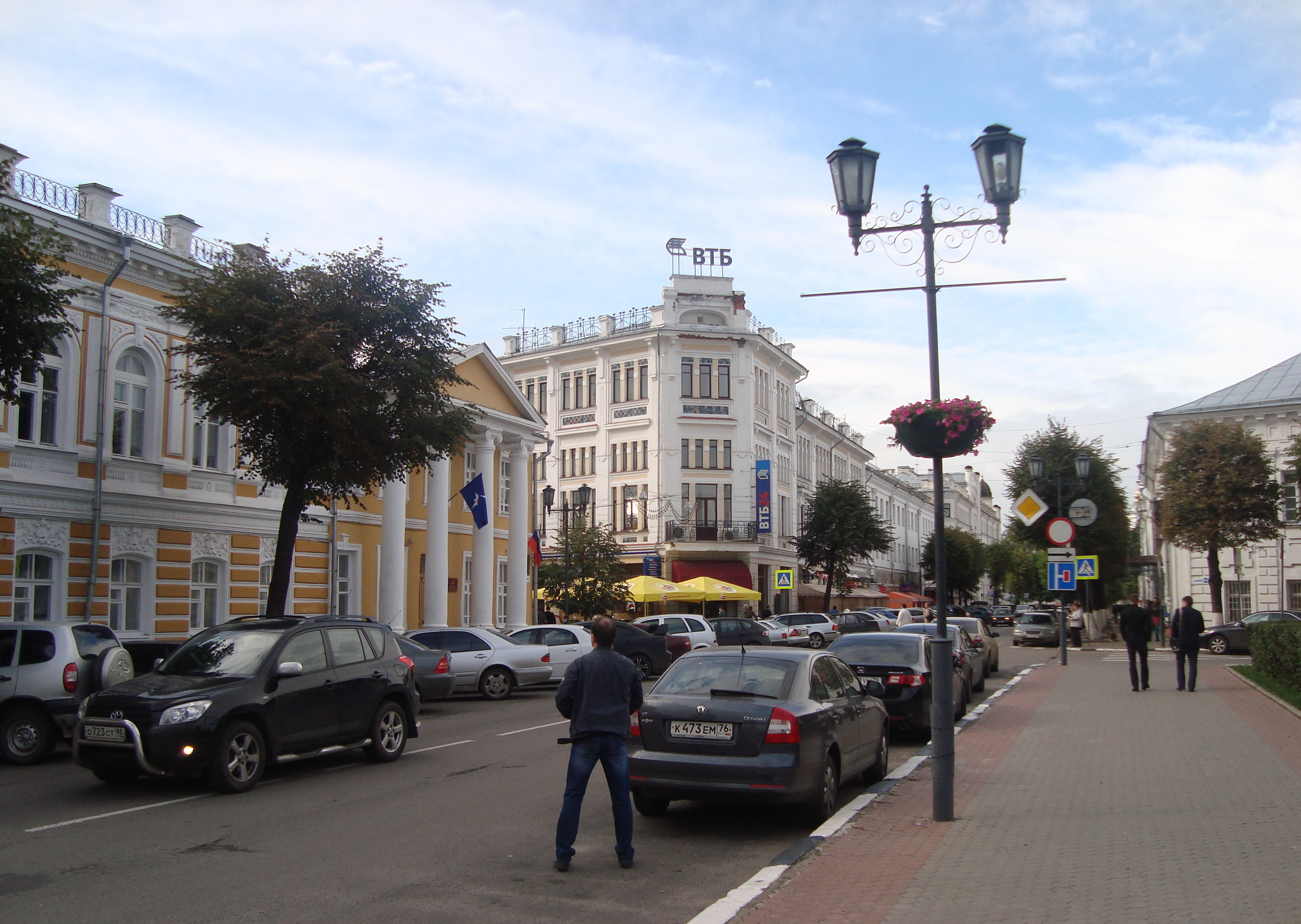 Andropova Street, Yaroslavl, Russia